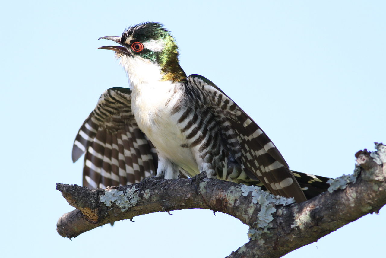 Diederik cuckoo, Chrysococcyx caprius, Borakalalo National Park, Northwest Province, South Africa. The light was challenging but it was showing its wing-opening display nicely.